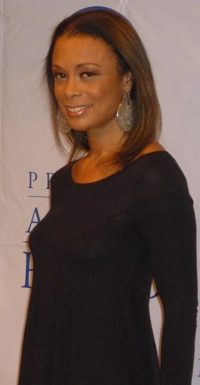 Valarie Pettiford on 17 October 2009 at the concert for Project Angel Food